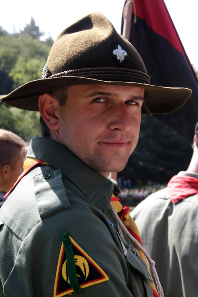 2nd Ukrainian Scout Jamboree 2009. Ukrainian Rover Scout — a participant of The Second Ukrainian Scout Jamboree, concerning the 20th anniversary of Plast and Scouting renewal in Ukraine, which took place in the valley of Dzhurynskyy waterfall, Zalishchynskyy district, Ternopil Oblast near Czerwonogród castle.